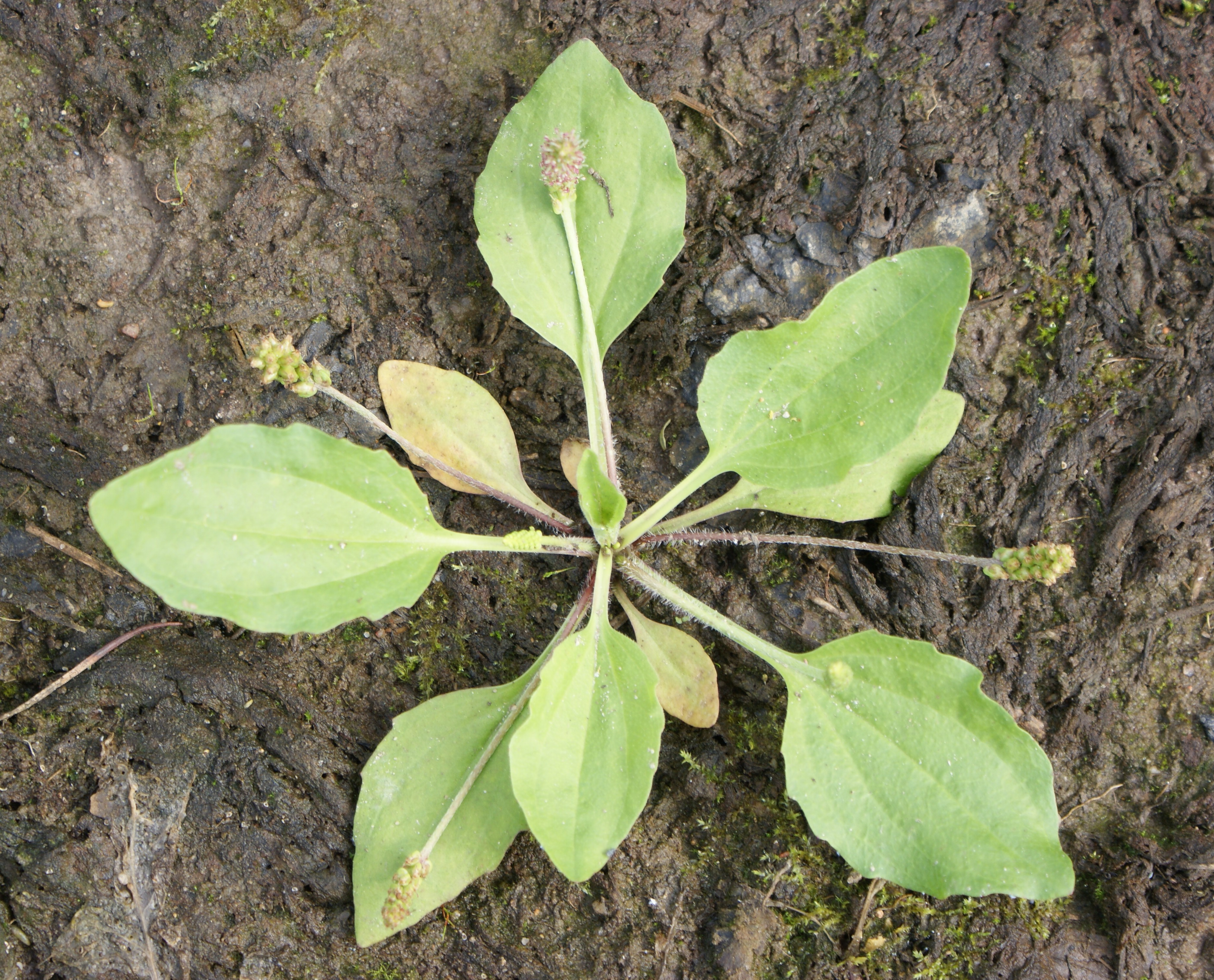 Plantago major subsp. intermedia. Bierzwnica near Świdwin (NW Poland)